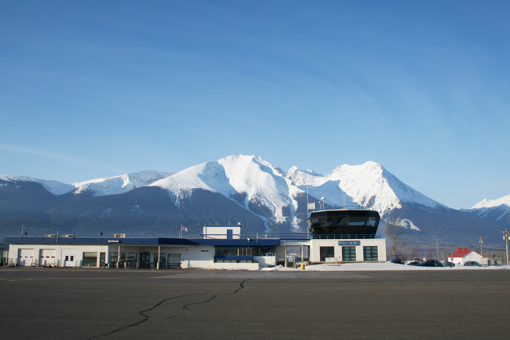 Smithers Regional Airport, CYYD